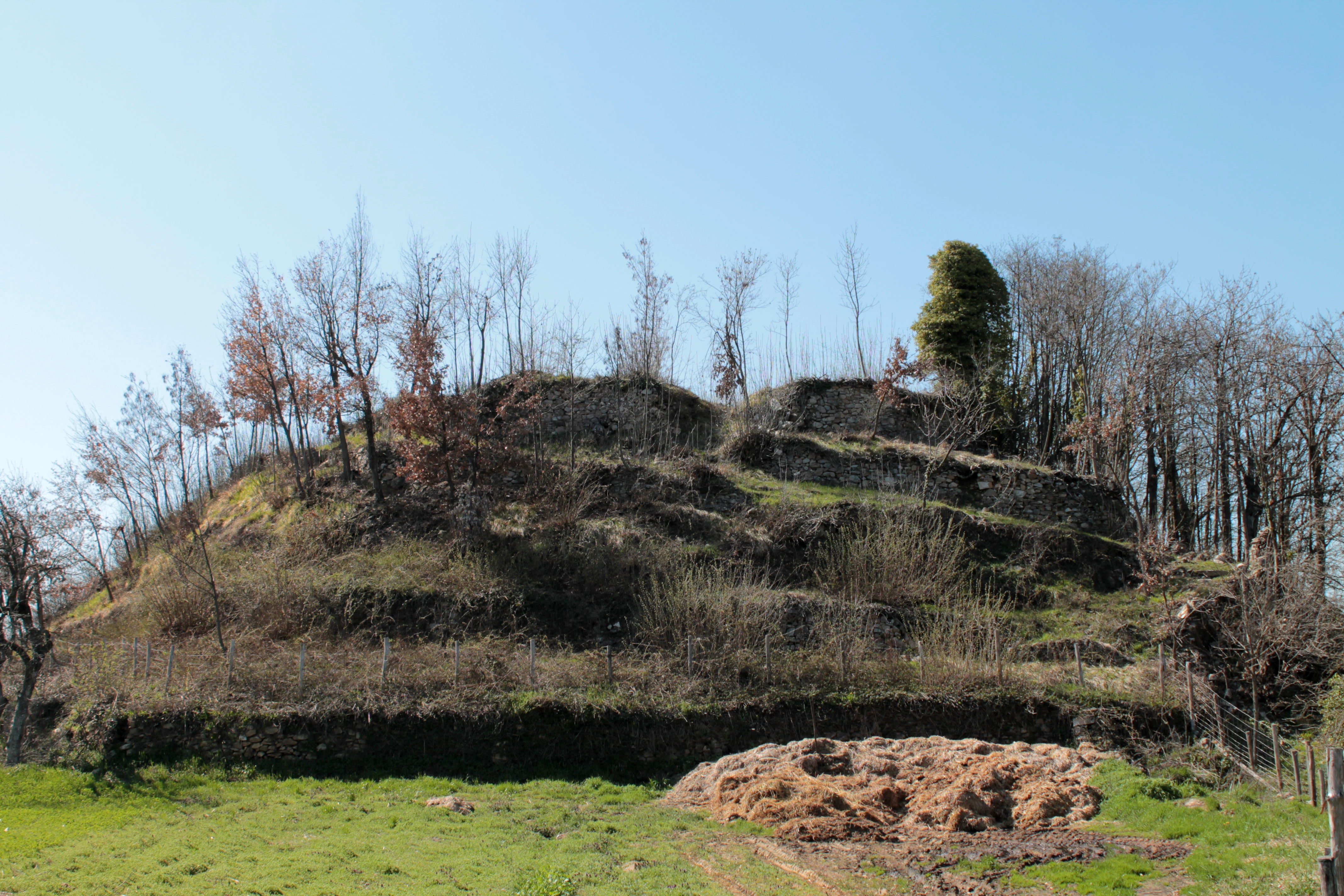 View of the ruins of the Malpotremo castle, Ceva (Italy)